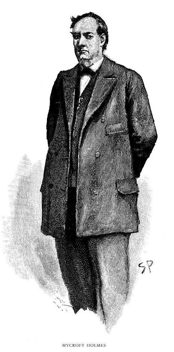 Mycroft Holmes, by Sidney Paget.